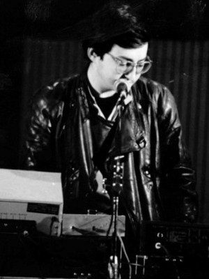 Gabriel Riaza (Esplendor Geométrico) live in Rome 1986